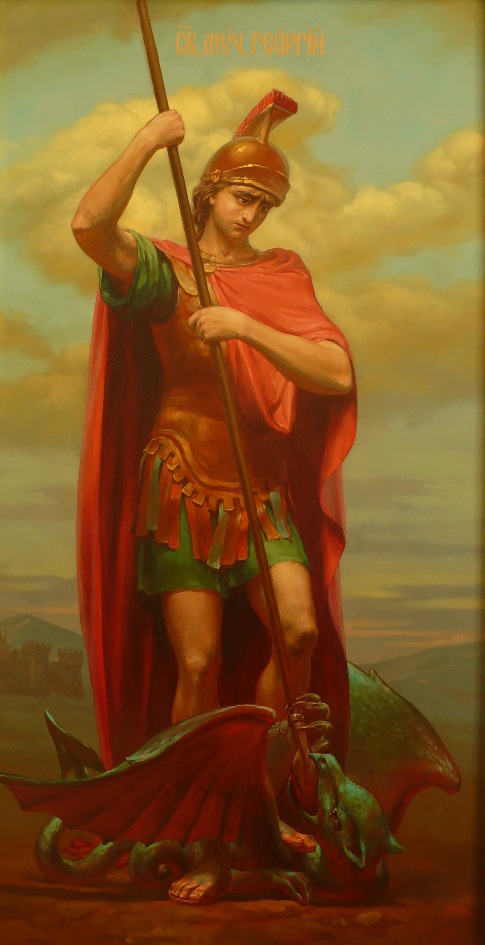 Icon of St. Georgij from Kolomenskoje